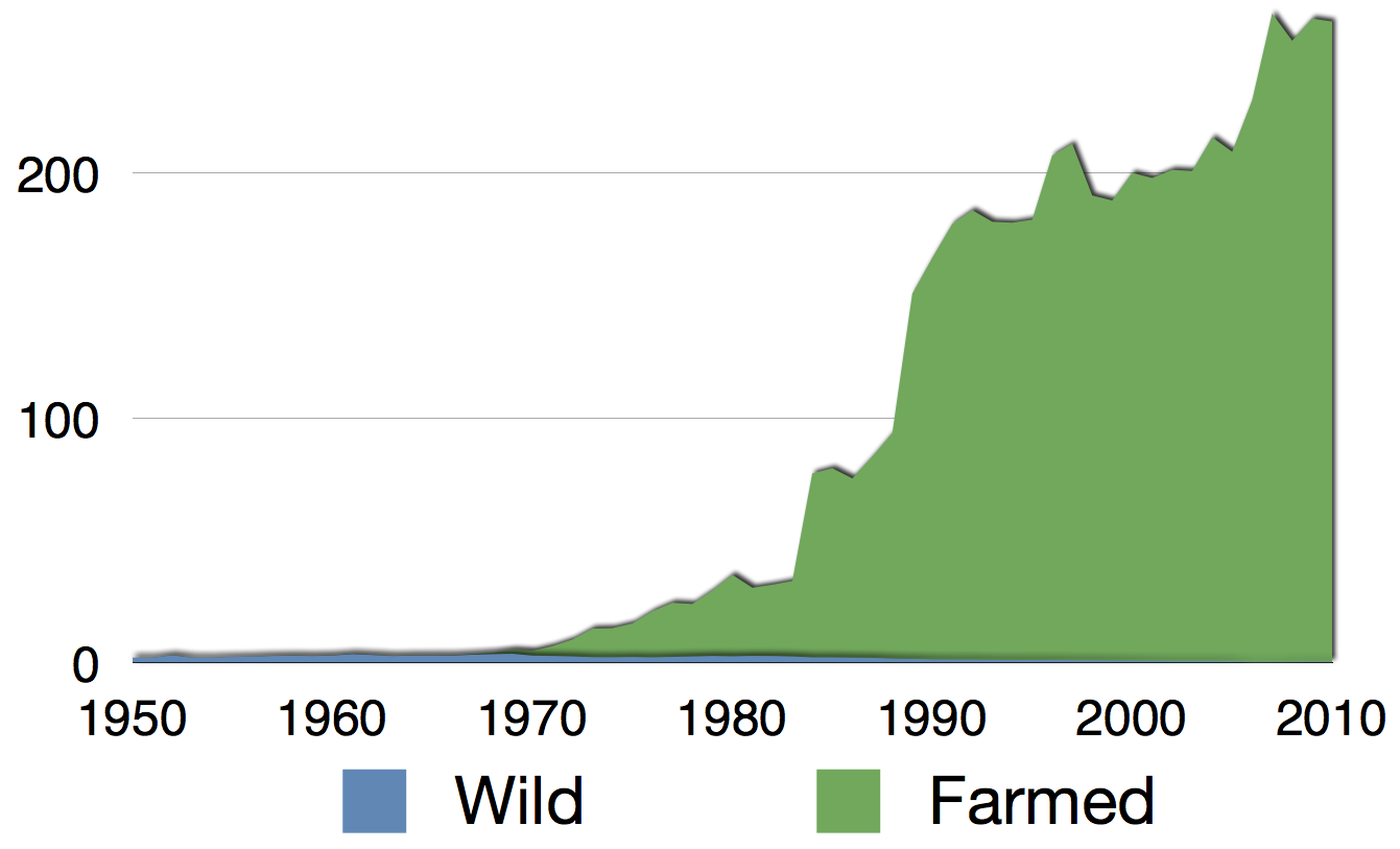 Total production of Japanese eel (Anguilla japonica), both wild and farmed, from 1950 to 2010. Data source FAO fisheries